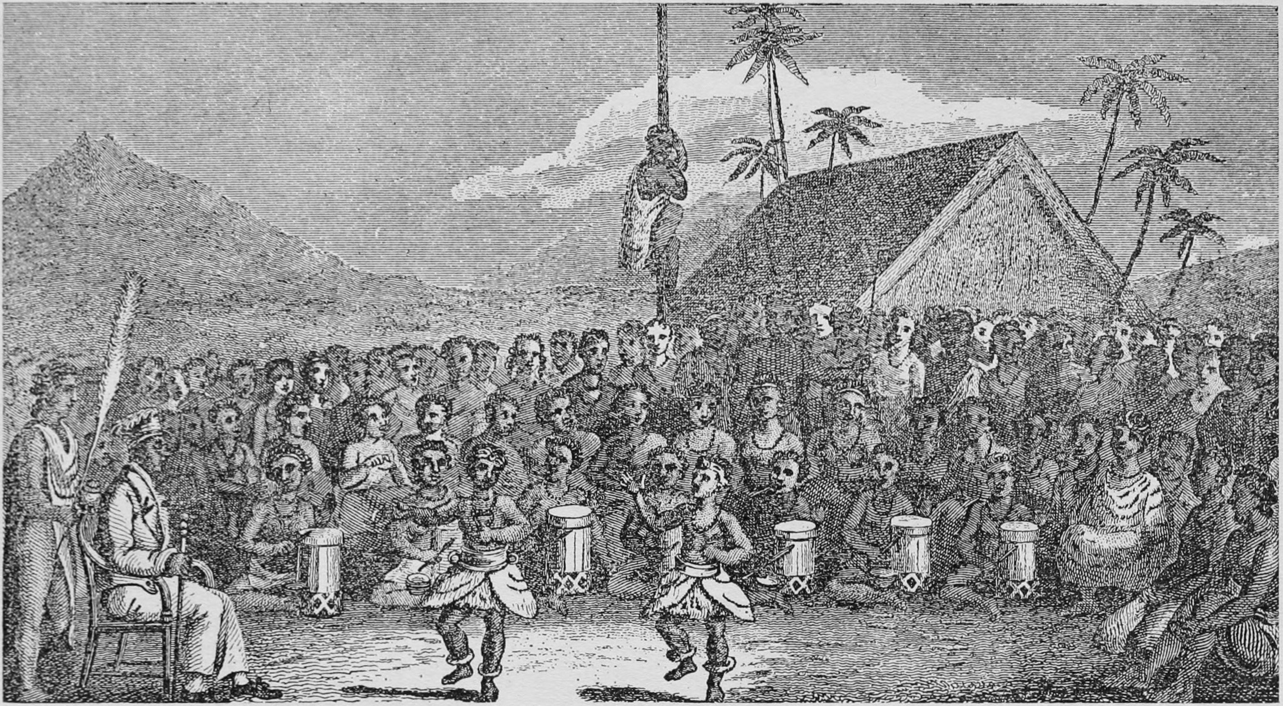 A Hura, or Native Dance, performed in presence of the Governor at Kairua. Engraved by J. McGhay after a sketch by William Ellis. Illustration from Missionary William Ellis' journal, from Ellis' tour through Hawaii from 1822 to 1823. This is from the second and third London edition published in 1826 and 1827 and later reprinted in 1917.